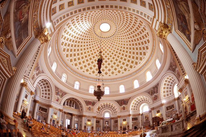 The Parish Church of the Assumption (Maltese: Knisja Arċipretali ta' Santa Marija), commonly known as the Rotunda of Mosta (Maltese: Ir-Rotunda tal-Mosta) or the Mosta Dome, is a Roman Catholic parish church in Mosta, Malta, dedicated to the Assumption of Mary. It was built between 1833 and the 1860s to neoclassical designs of Giorgio Grognet de Vassé, on the site of an earlier Renaissance church which had been built in around 1614 to designs of Tommaso Dingli.